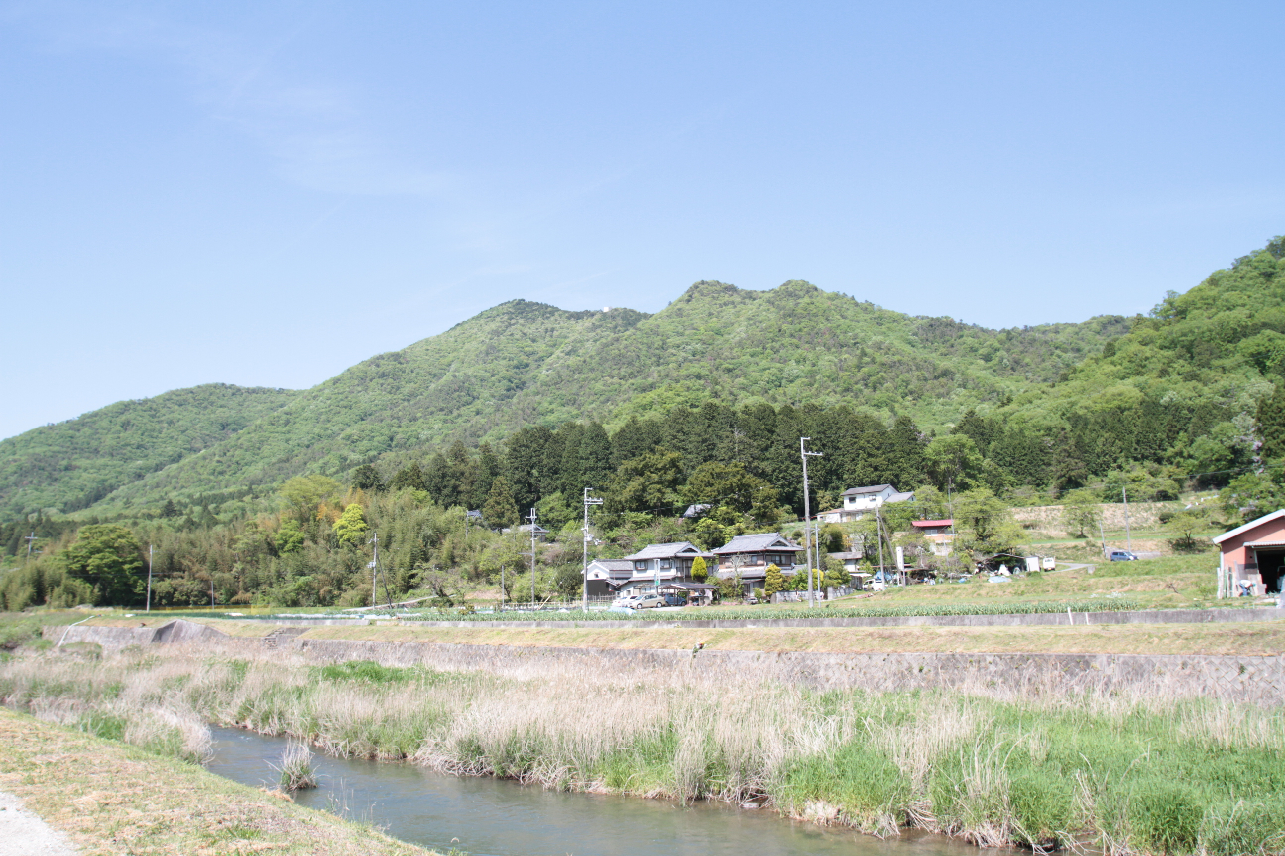 hatsukagawa River and Mount Ofuna in Sanda, Hyogo Prefecture, Japan.